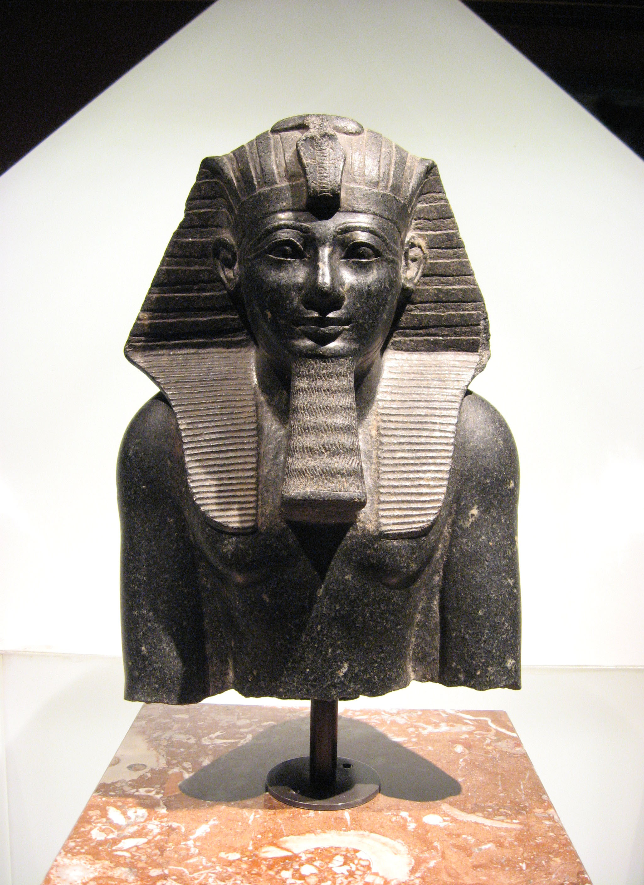 Statue of Thutmosis III in the Kunsthistorisches Museum in Vienna (Wien). Acquired in 1821 by Ernst August Burghart in Egypt. ÄS. 70.